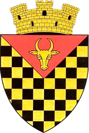 Anenii Noi Coat of Arms